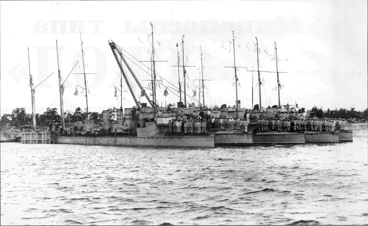 Imperial Russian torpedo boat destroyer R'yanyi.